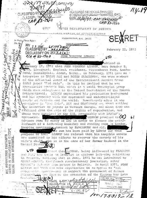 In the early 1970s, the US government conducted surveillance on ex-Beatle John Lennon. This is a letter from the government files. After a 25-year Freedom of Information Request battle initiated by historian Jon Wiener, the files were released. Here is one page from the file. This second release received by Wiener was less heavily magic-markered out, that is, redacted. A prior version was released which showed most of the document with heavily blacked out text.